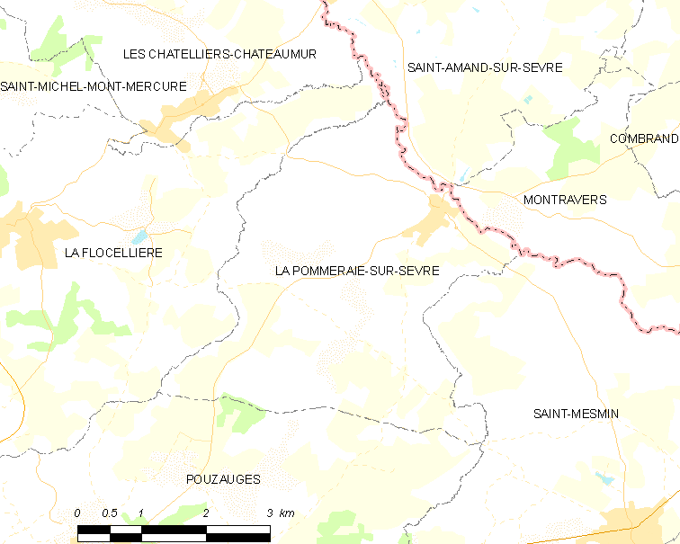 Map of French municipality La Pommeraie-sur-Sèvre